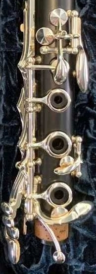 Reform Boehm-clarinet by Herbert Wurlitzer, Extension of the flap for G sharp for use with the right index finger